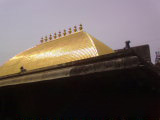 tபொற்கூரை உடன் கூடிய தில்லை பொன்னம்பலம்